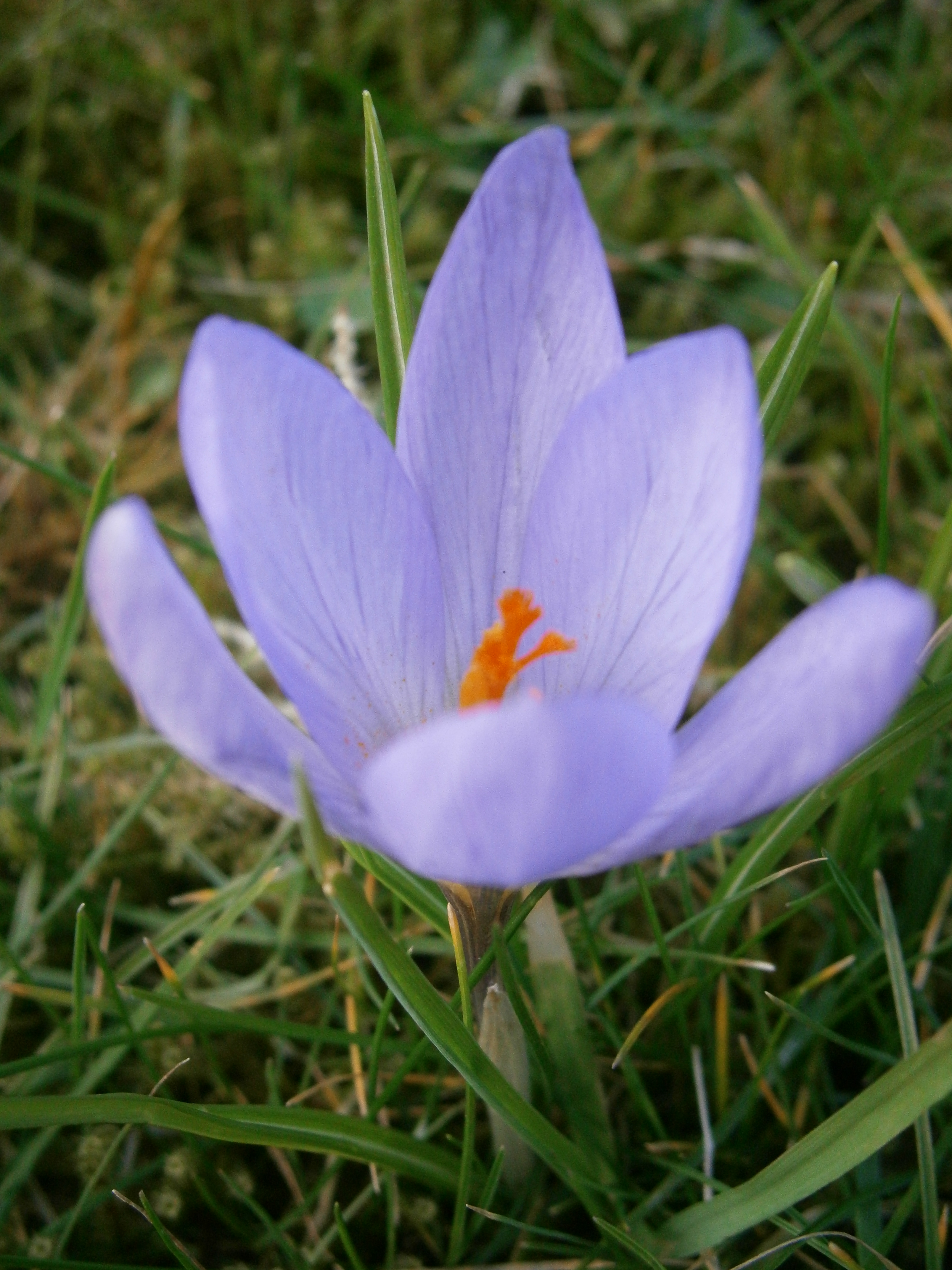 Crocus etruscus close-up